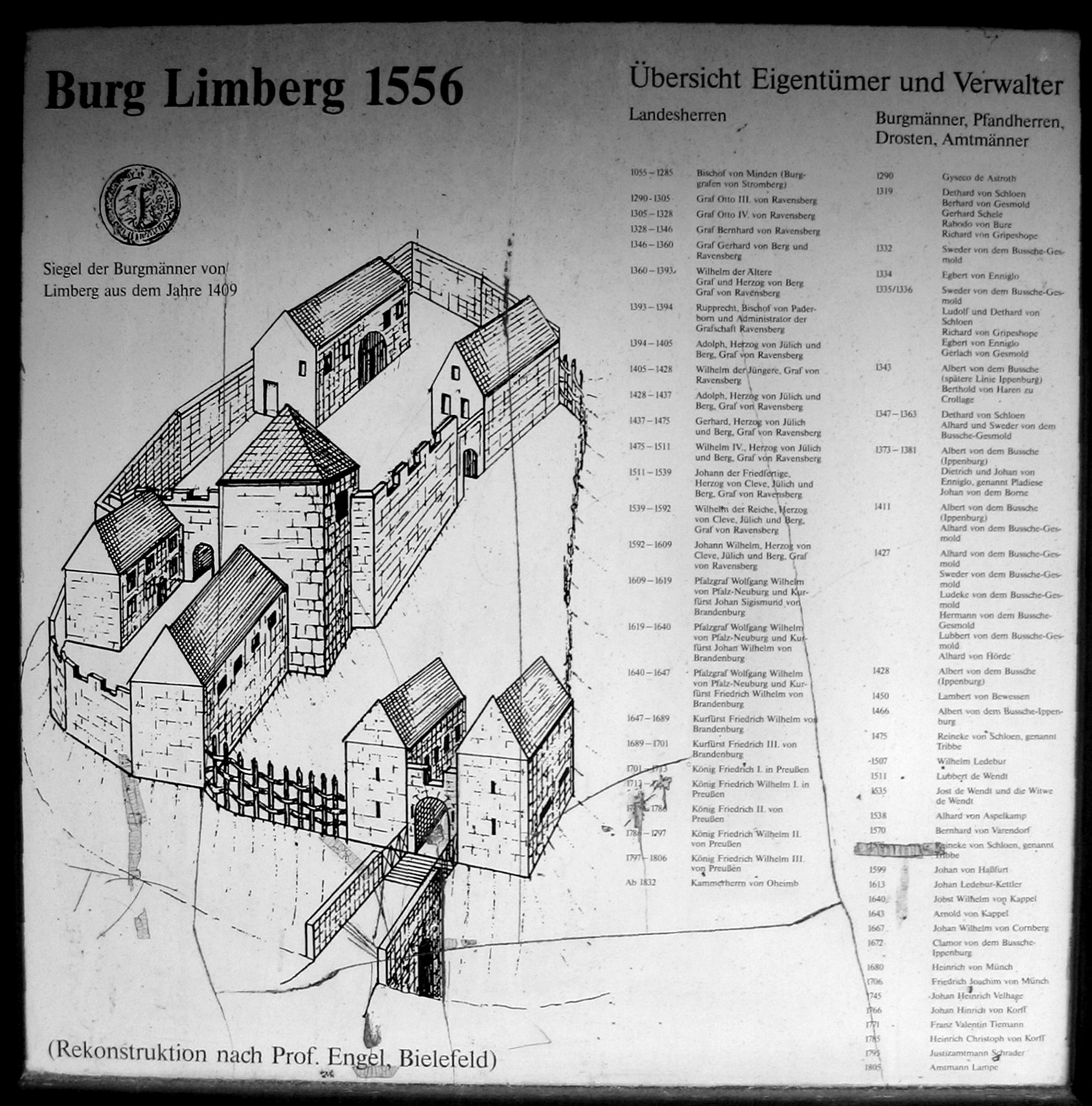 Sign at Limberg castle in Preußisch Oldendorf, District of Minden-Lübbecke, North Rhine-Westphalia, Germany.